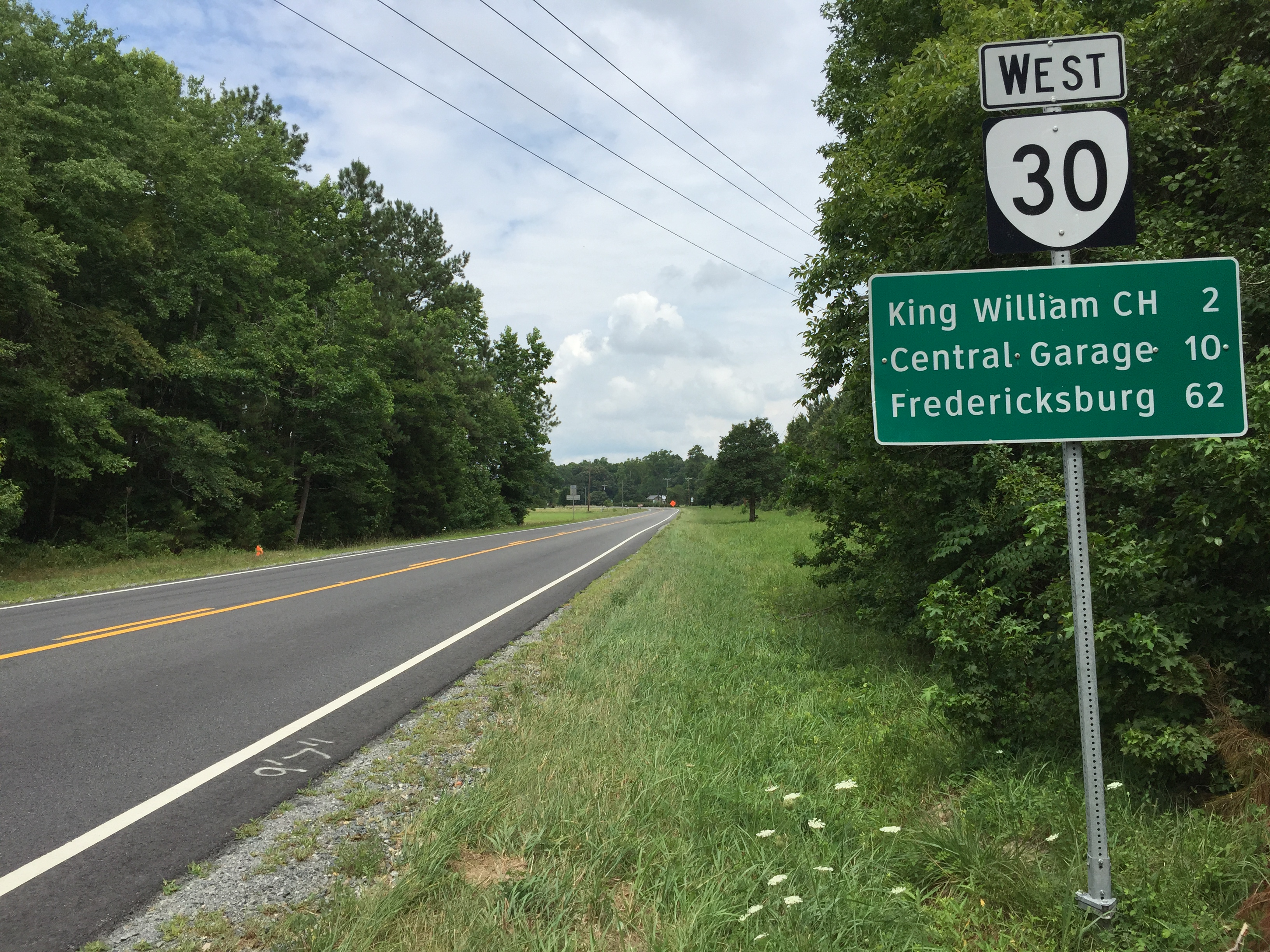 View west along Virginia State Route 30 (King William Road) near Scotland Landing Road (Virginia State Secondary Route 620) east of Whites Shop in King William County, Virginia